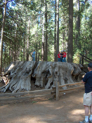 Giant stump of "Discovery Tree" at the North Grove of Calaveras Big Trees State Park, western Sierra Nevada, Calaveras County, California. The Discovery Tree is a Giant Sequoia that was felled in 1853. It was determined to be 1244 years old, and measured 24 feet (7.3 m) in diameter when felled.